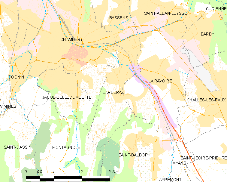 Map of French municipality